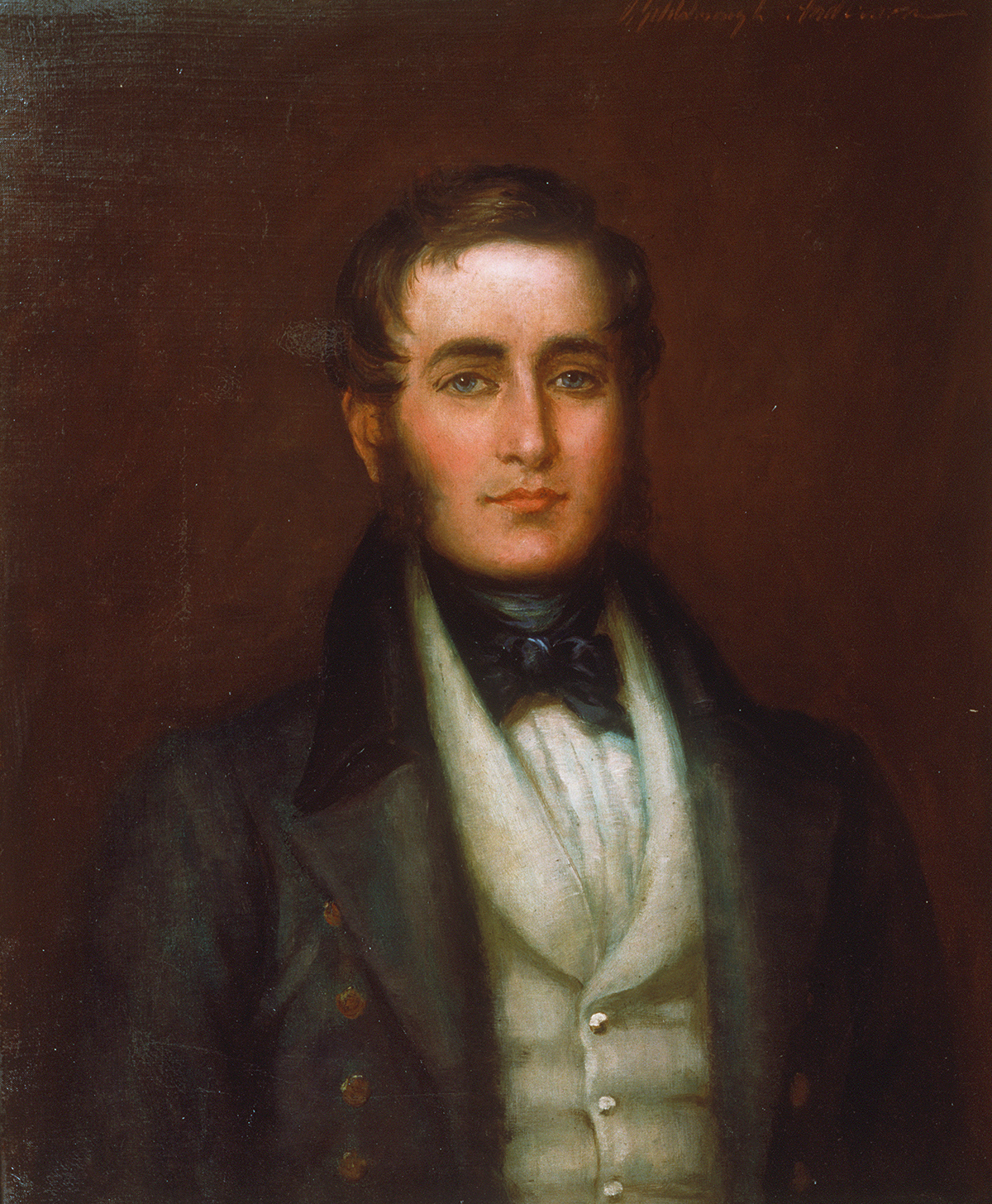 Pryse Loveden (1815-1855), MP, of Gogerddan Estate, Cardiganshire, Wales - (copy of earlier painting) by Charles Goldsborough Anderson (1865-1936); Llyfrgell Genedlaethol Cymru / The National Library of Wales